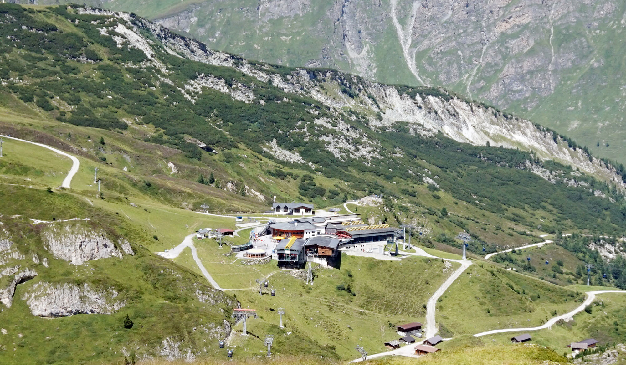 Sommerbergalm, Hintertux, Austria. This photograph was taken with a Sony Alpha a5000.